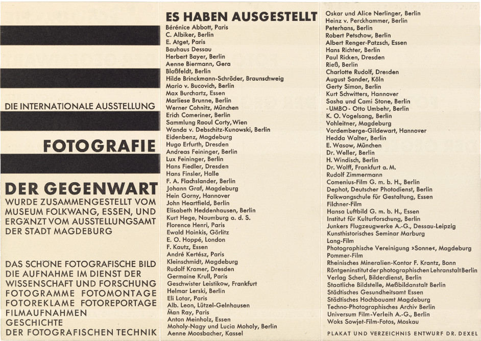 Exhibition advertisement